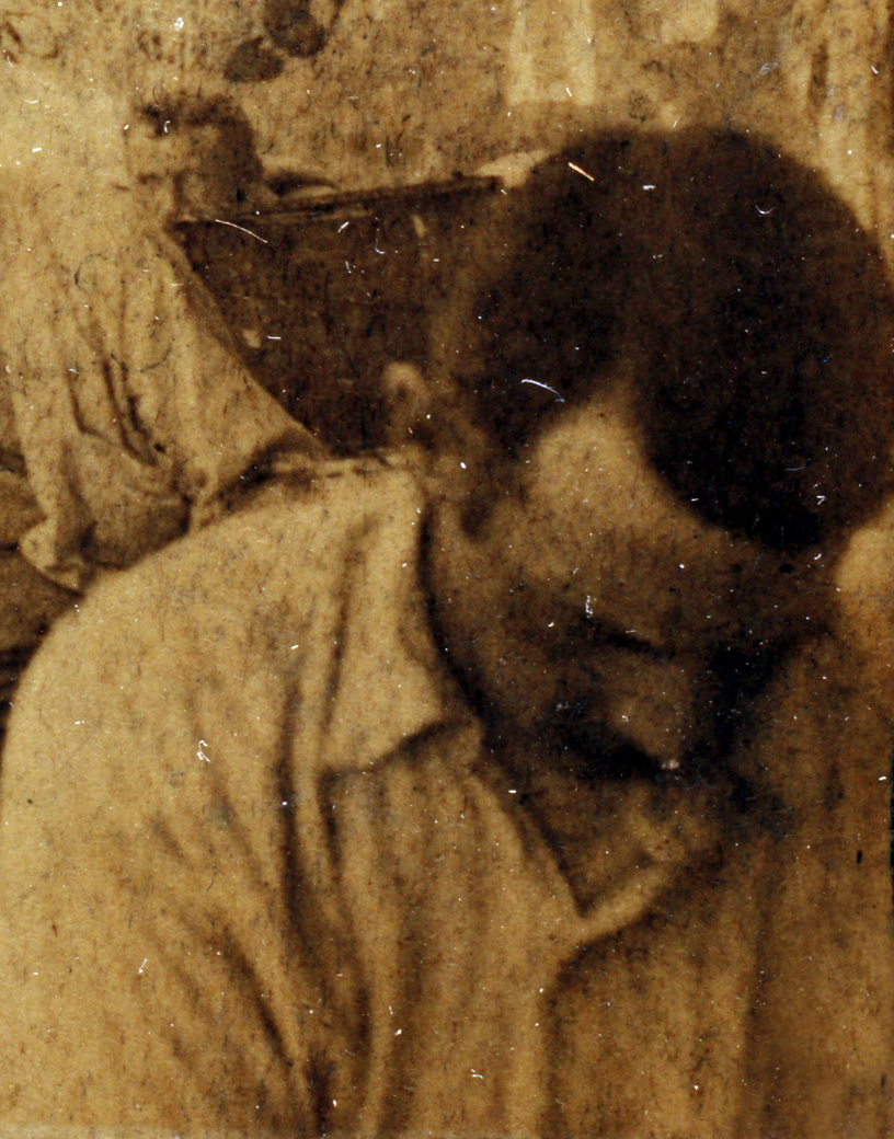 Gother Victor Fyers Mann painting on board the 'Antidote' Hastings River [detail], 1896, albumen print, State Library of New South Wales, MIN 299